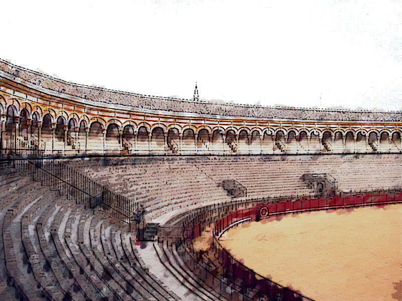 author: Rolf Obermaier